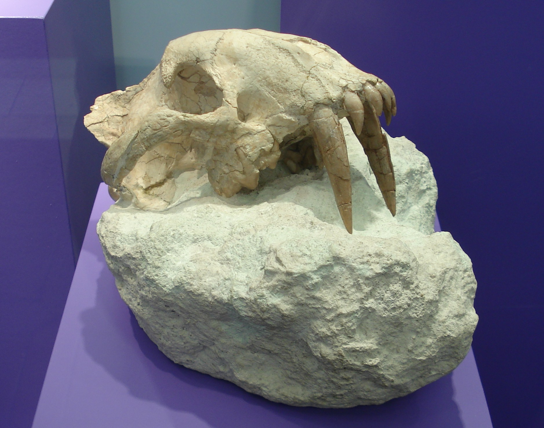 fossil of hoplophoneus